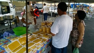 Free Fair